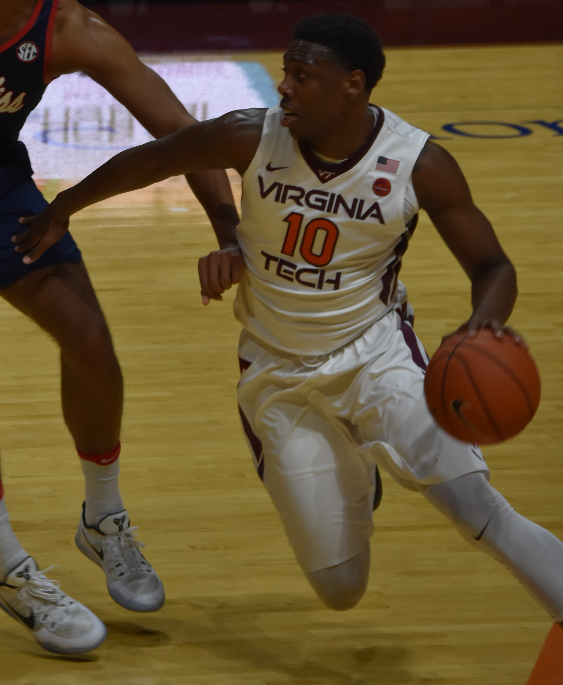 Justin Bibbs handles the ball for the Hokies